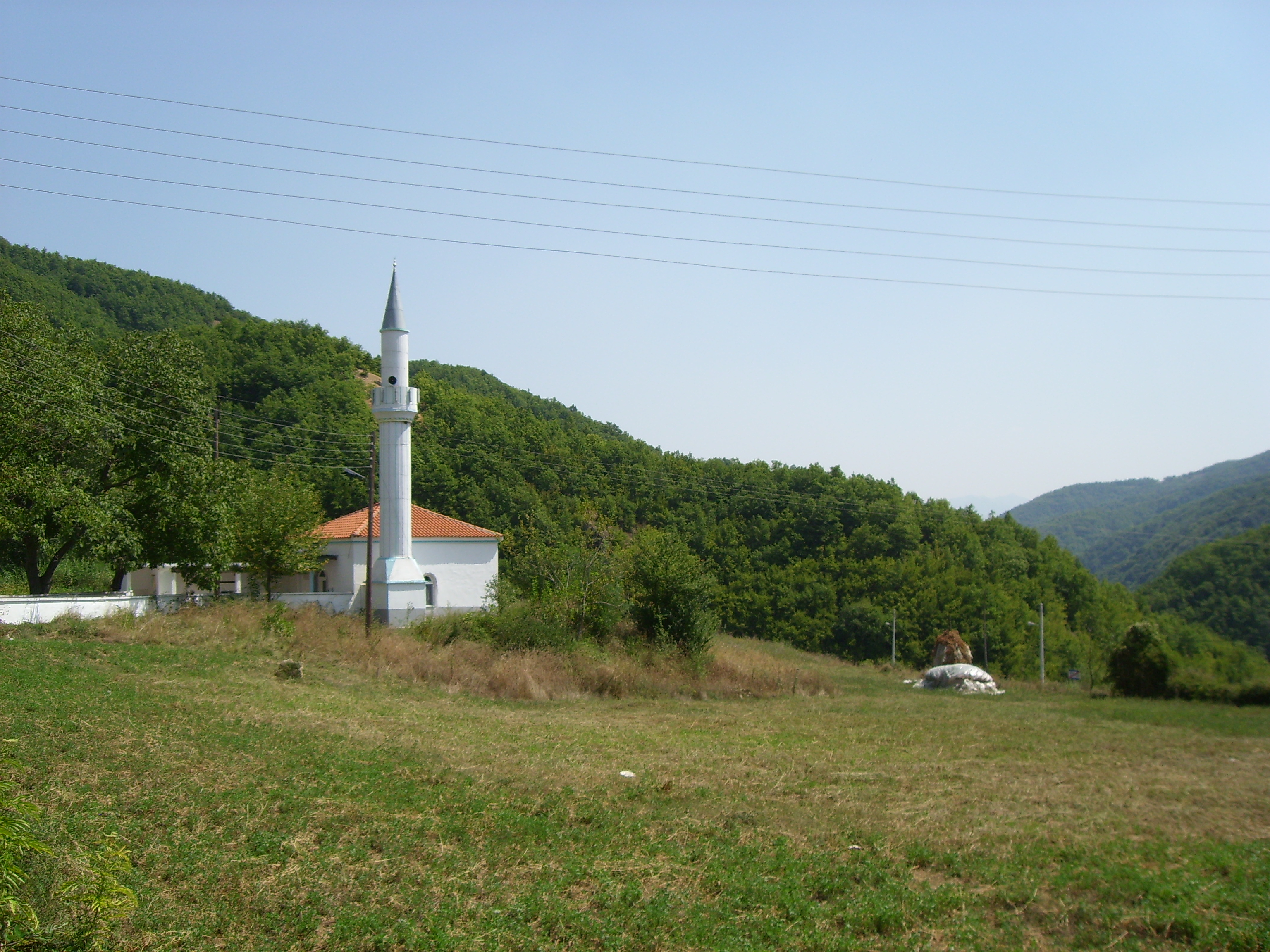 The mosque in the village of Thermes in Greece.